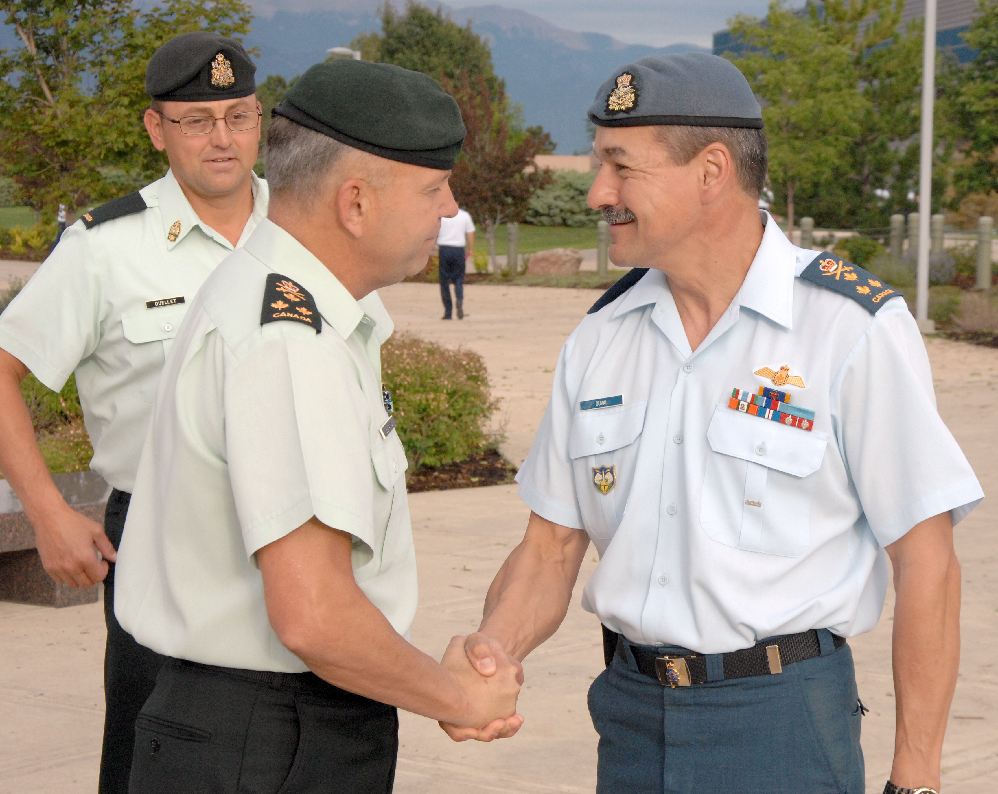 PETERSON AIR FORCE BASE, Colo. - Canadian Lt. Gen. J. M. Duval greets Canadian Lt. Gen. Walter Semianiw, Canada Command commander, outside the North American Aerospace Defense Command and U.S. Northern Command headquarters Aug. 9. Semianiw visited USNORTHCOM to meet with Navy Adm. James Winnefeld, USNORTHCOM commander, and receive an overview of the command's mission and capabilities. It was his first visit to the command since assuming command of Canada Command on July 7.